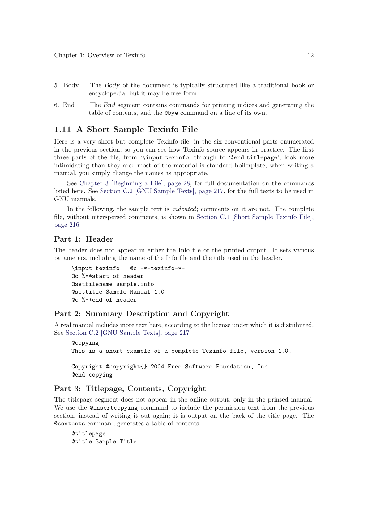 Page 25 of the Texinfo manual, licensed under the GFDL.